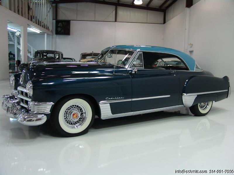 The first Deville